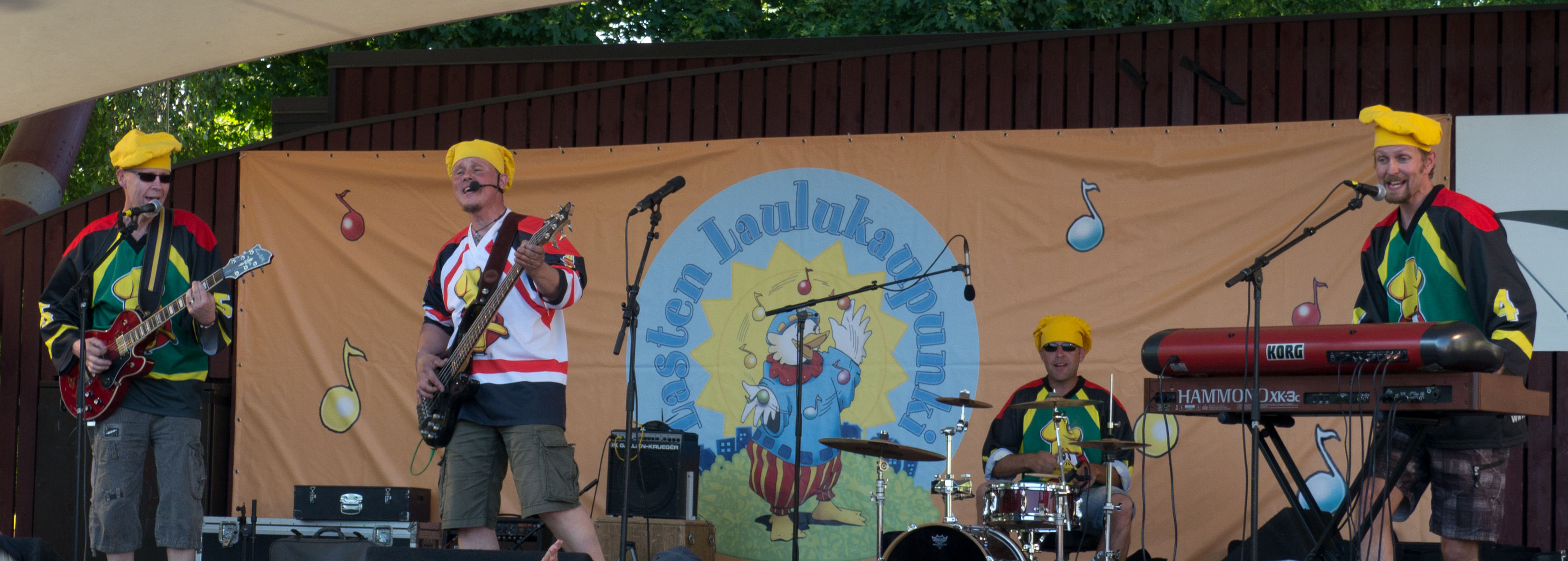 Rokki-Kokki